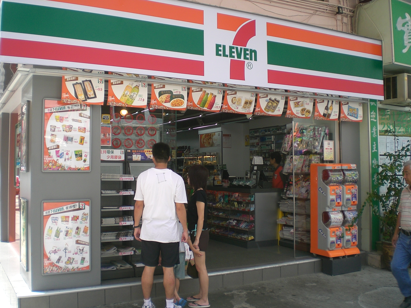 2008年9月15日zh:大坑浣紗街